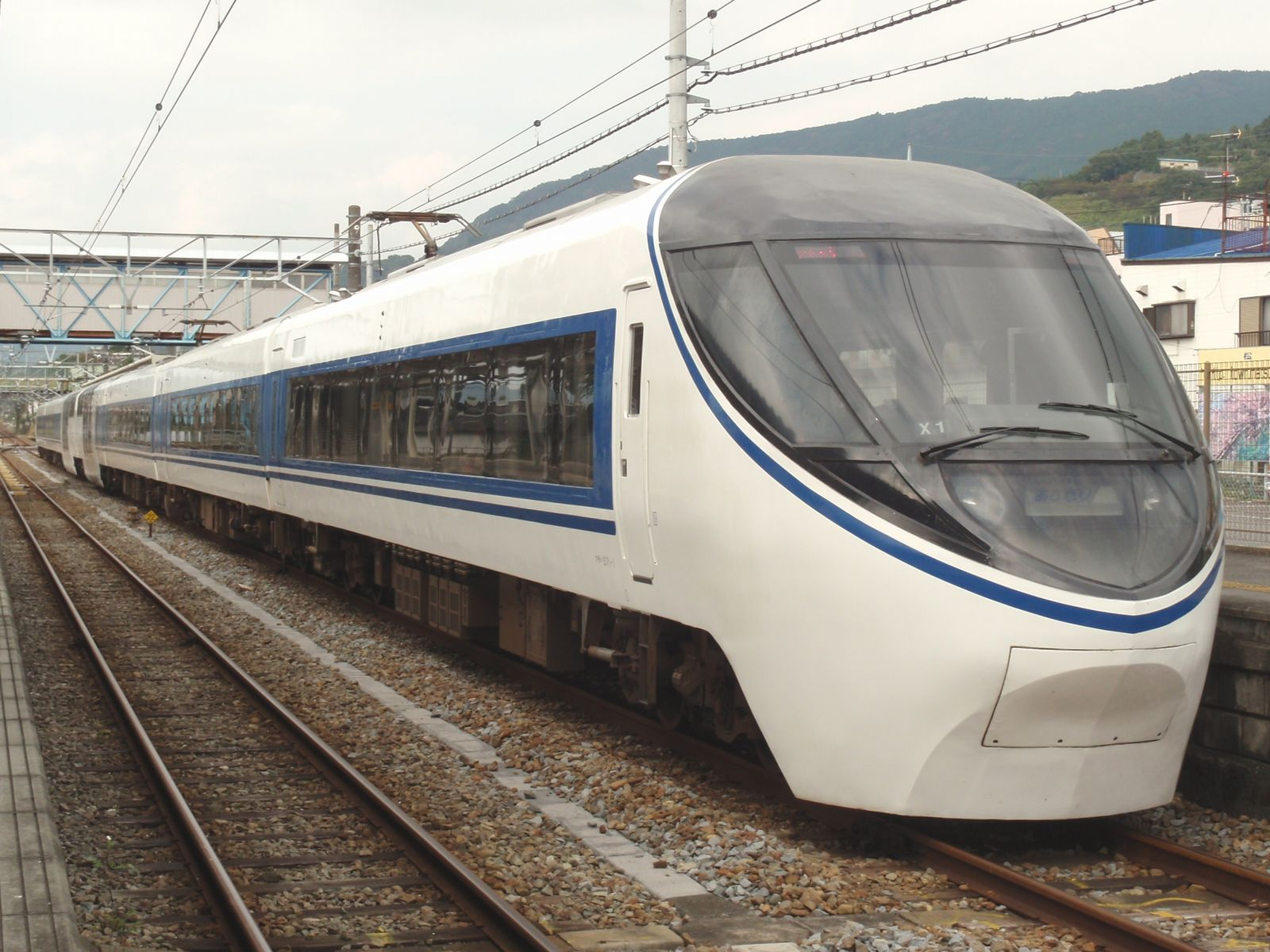 JR Central 371 series EMU on an Asagiri service at Matsuda Station